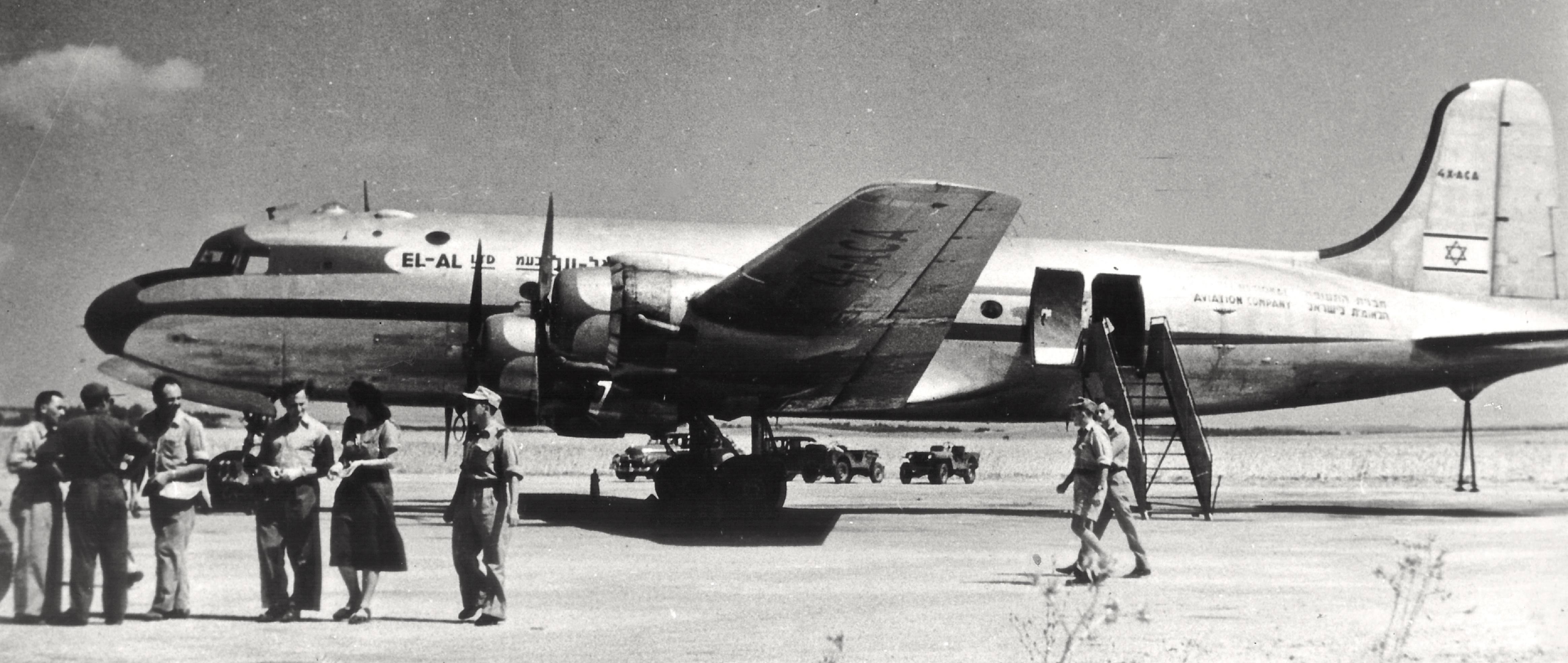 4X-ACA, Douglas C-54B at Ekron Air Base. Ex. N58021. The first aircraft in the Israeli registry (4X) and the first aircraft to serve El Al. Later that year returned to the Israeli Air Force. On 2nd of January 1949 crash landed on Tel Aviv beach and damaged. Thereafter, never returned to service.